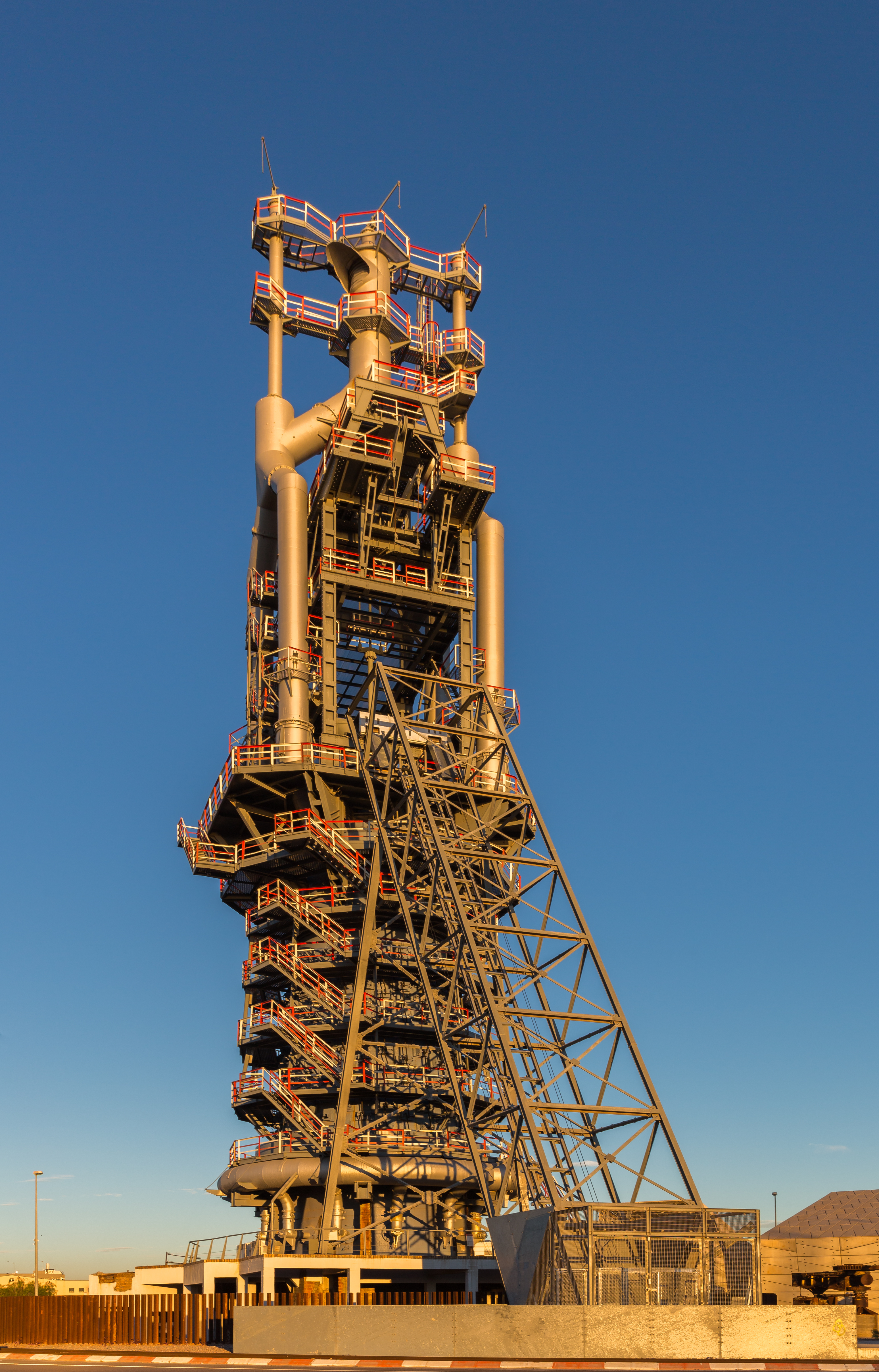 Former blast furnace #2 belonging to the disappeared Altos Hornos del Mediterráneo S.A. (Mediterranean Blast Furnaces), located in Port of Sagunto, Valencian Community, Spain. The company Altos Hornos del Mediterráneo S.A (AHM), based on the Altos Hornos de Vizcaya S.A., was created in 1971 to serve the ferrous metallurgy in Sagunto. This blast furnace, the only one remaining of the 3 that were operating, is 64 m high and was first built in 1922 and remodeled in the 1970s. It operated only 13 years long and after its restoration, today is open to public visits.